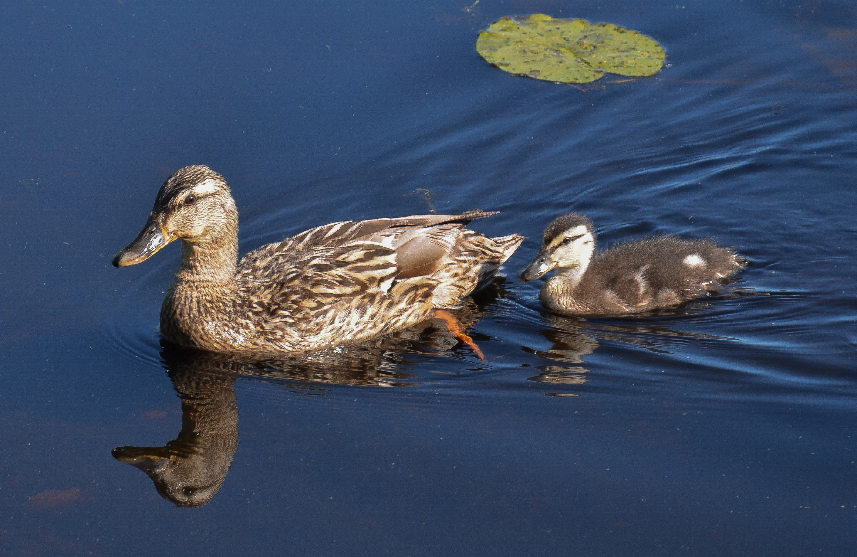 Ducks